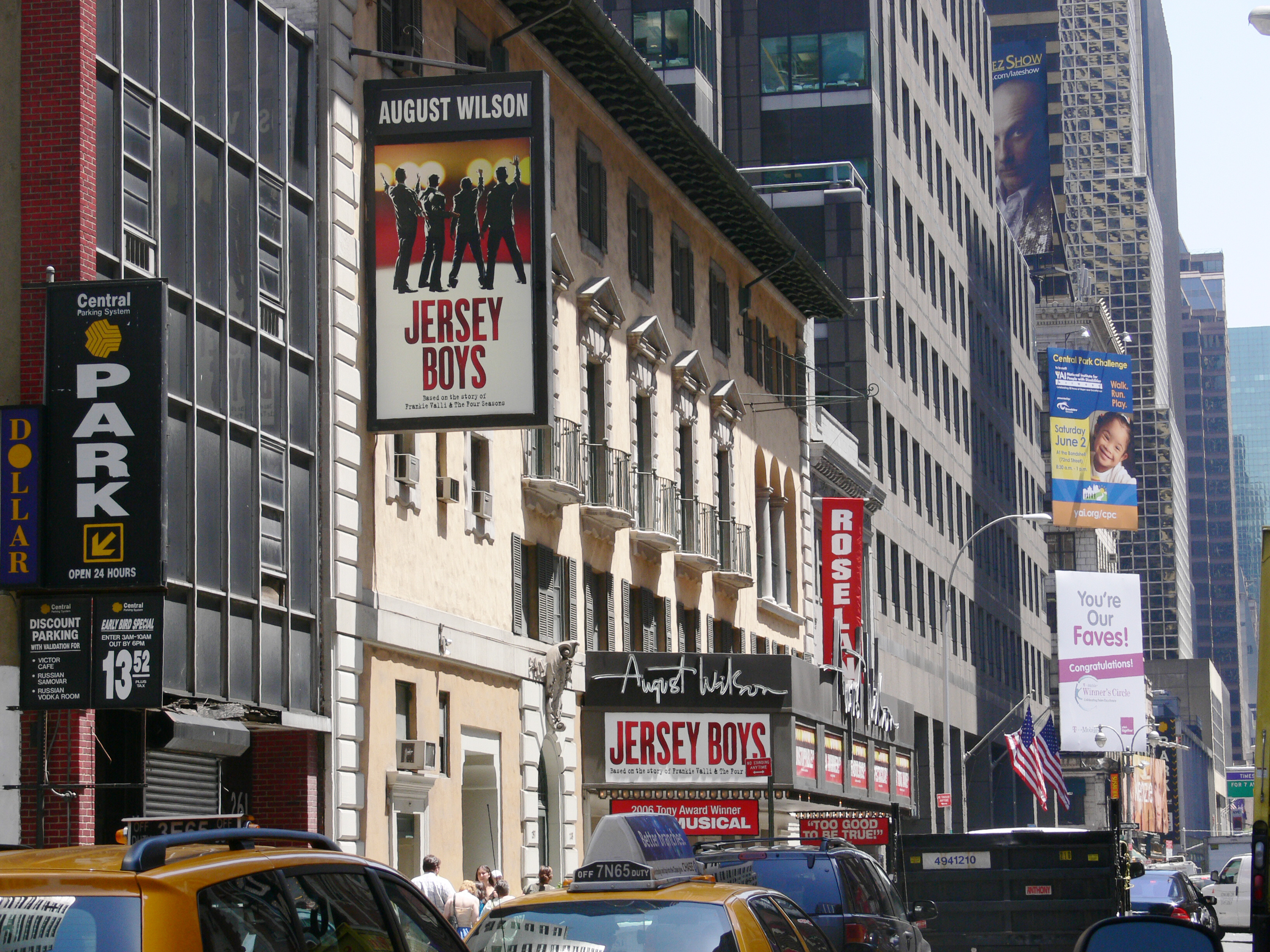 August Wilson Theatre (formerly Virginia Theatre), showing "Jersey Boys" 52nd Street, Manhattan, New York City